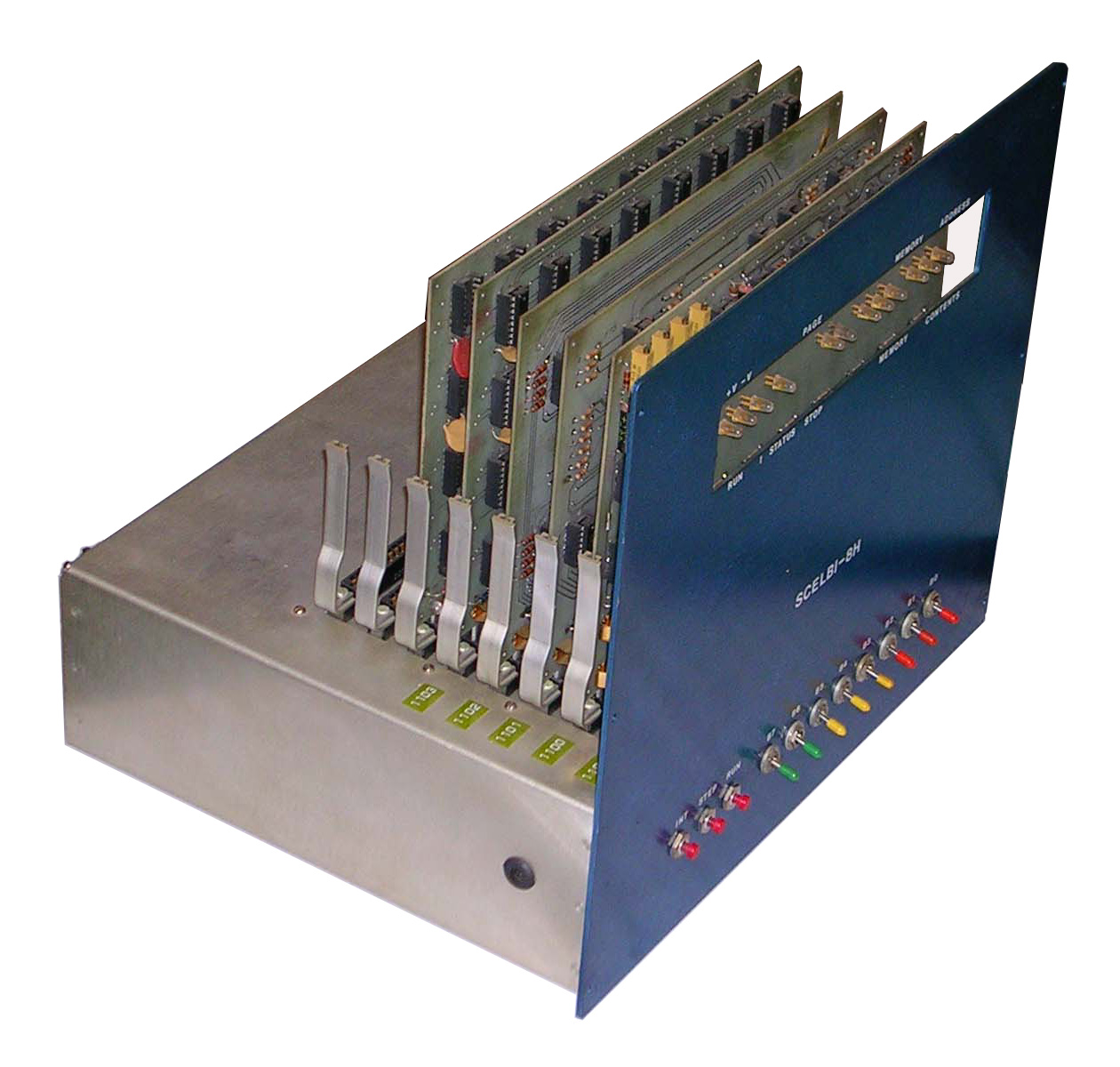 The Scelbi computer used the Intel 8008 microprocessor. The Scelbi-8H hobby computer was a kit with 1K of memory and sold for $500 The Scelbi-8B business computer was assembled with 4K of memory and sold for $850. The memory could be expanded to 16K bytes. They were produced from March 1974 to December 1975 and about 200 units were sold. The principal designer, Nat Wadsworth, developed serious health problems and while in the hospital he started writing a book, Machine Language Programming for the 8008. The book was more profitable than the computers so the company discontinued the hardware products. This Scelbi-8H computer was displayed by Jack Rubin at the Vintage Computer Festival 7. This was held at the Computer History Museum in Mountain View, California, November 2004. Photo by Michael Holley, November 2004. Taken with a Nikon E3200 with on camera flash.